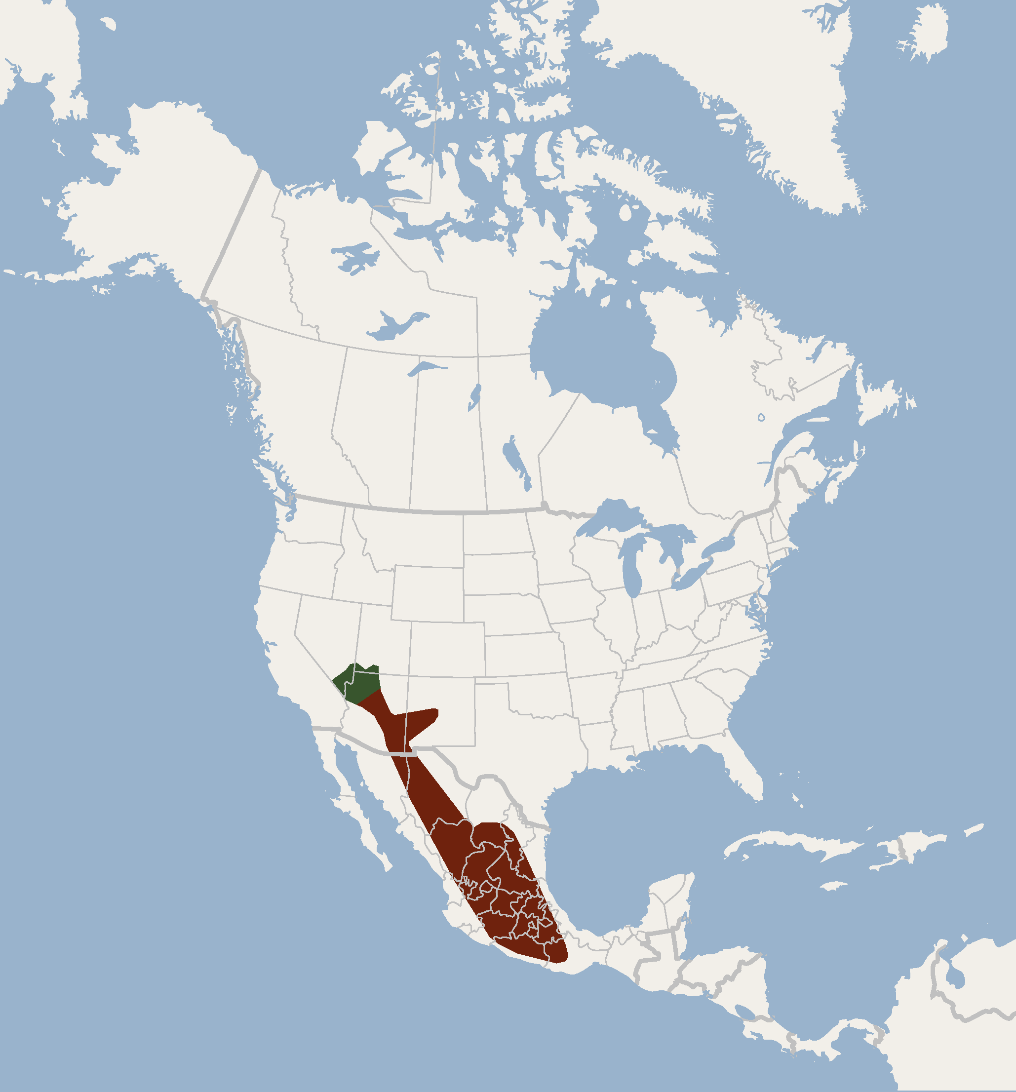 According to the Western Bats Working Group at